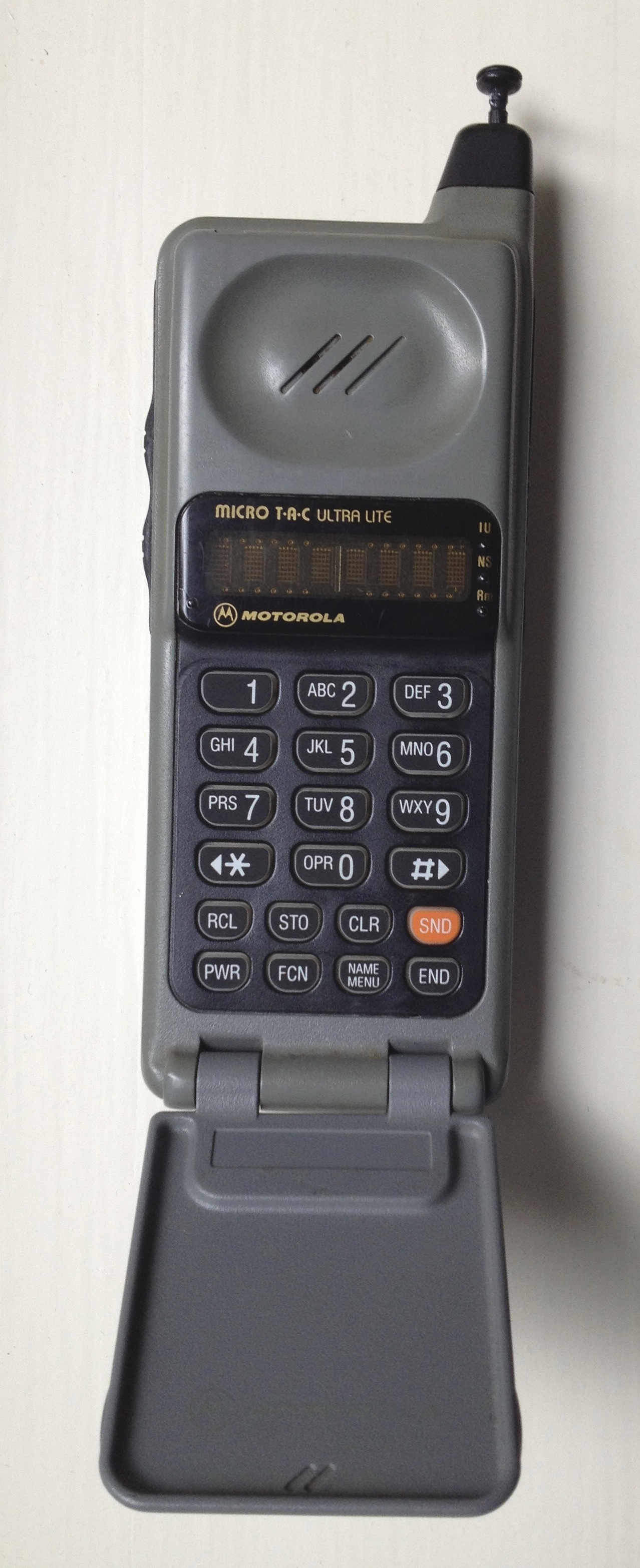 Motorola TAC Ultra Lite mobile phone